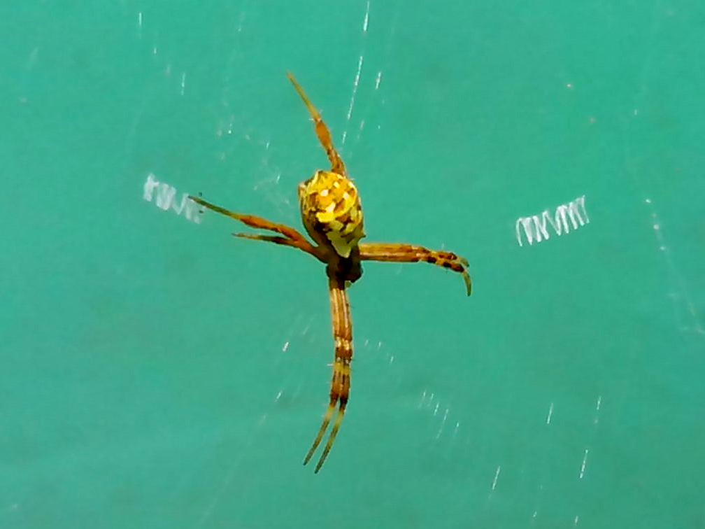 (Argiope anasuja) Male Yellow Spider at Madhurawada, Visakhapatnam